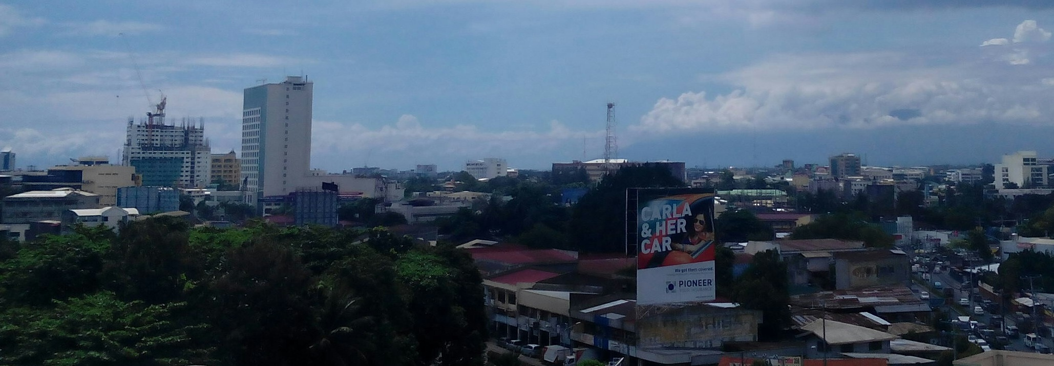 Skyline of Davao City from G-Mall Peak